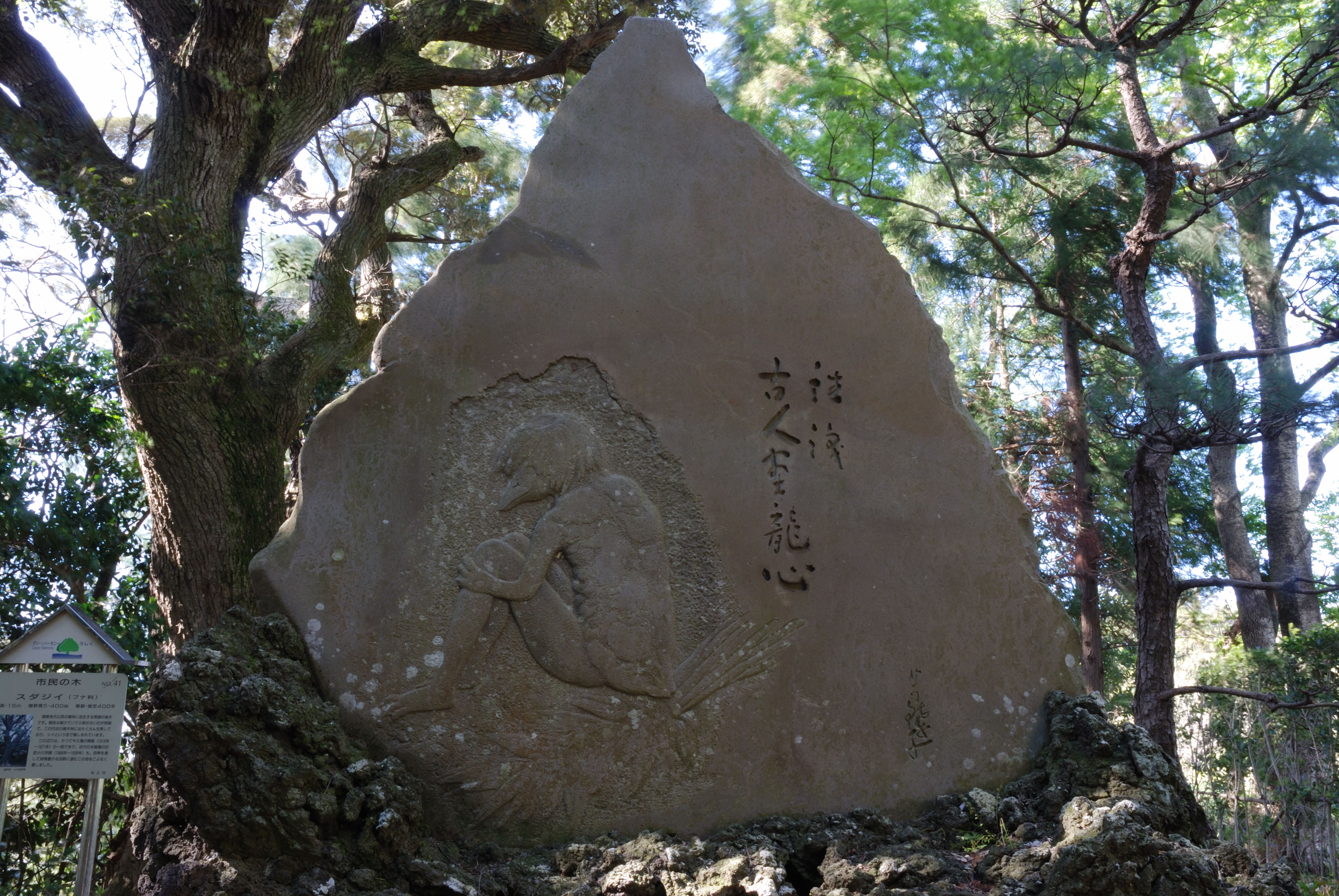 Stone monument of the water imp